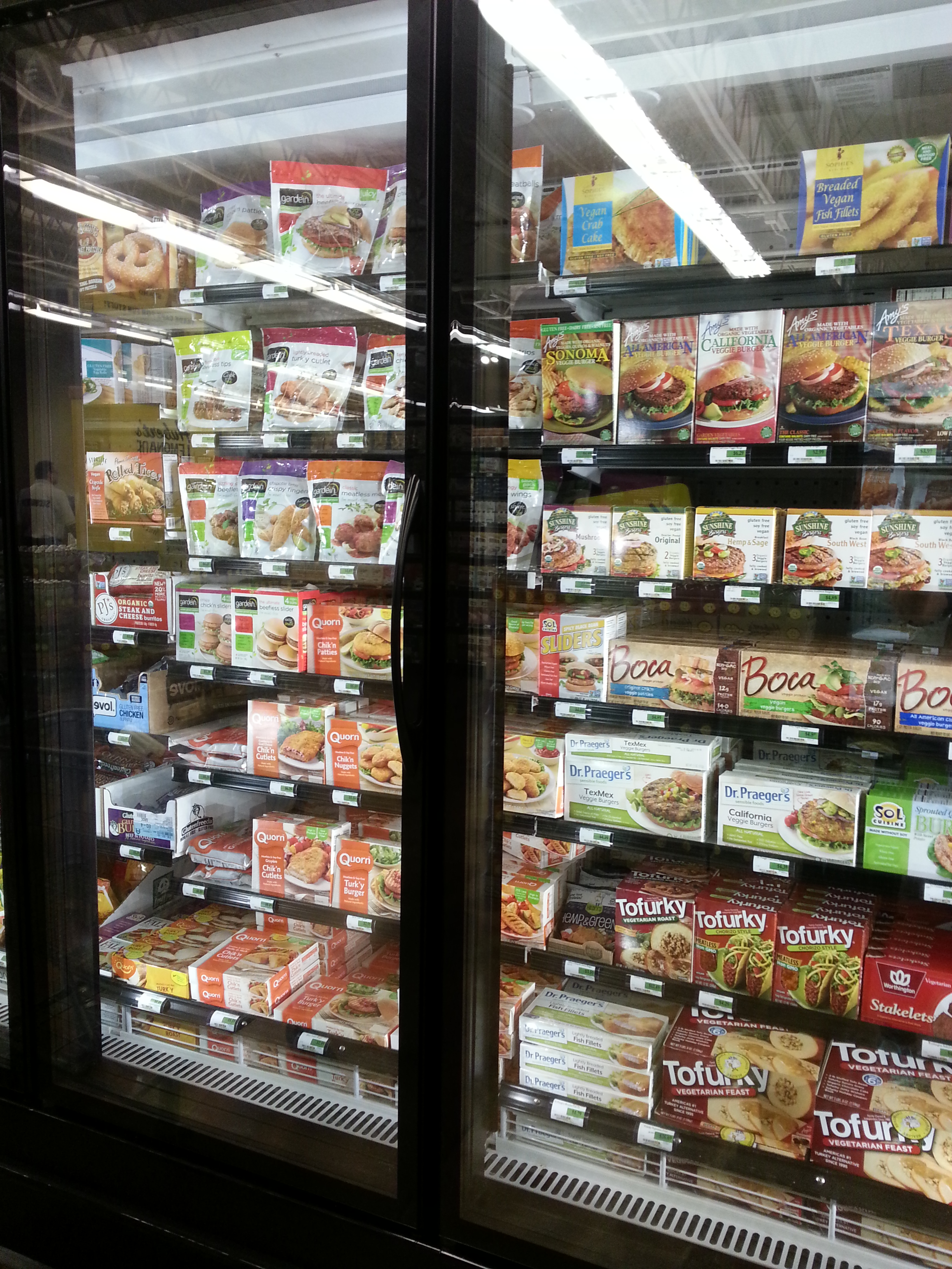 Vegan processed food, Frazier Farms supermarket, Oceanside, California